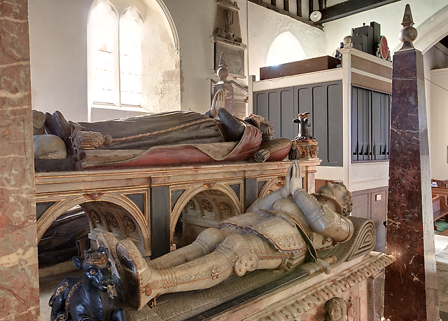 Photograph of tomb effigies of Countess of Southampton and her son the second Earl of Southampton at St Peter's Church, Titchfield, Hampshire.